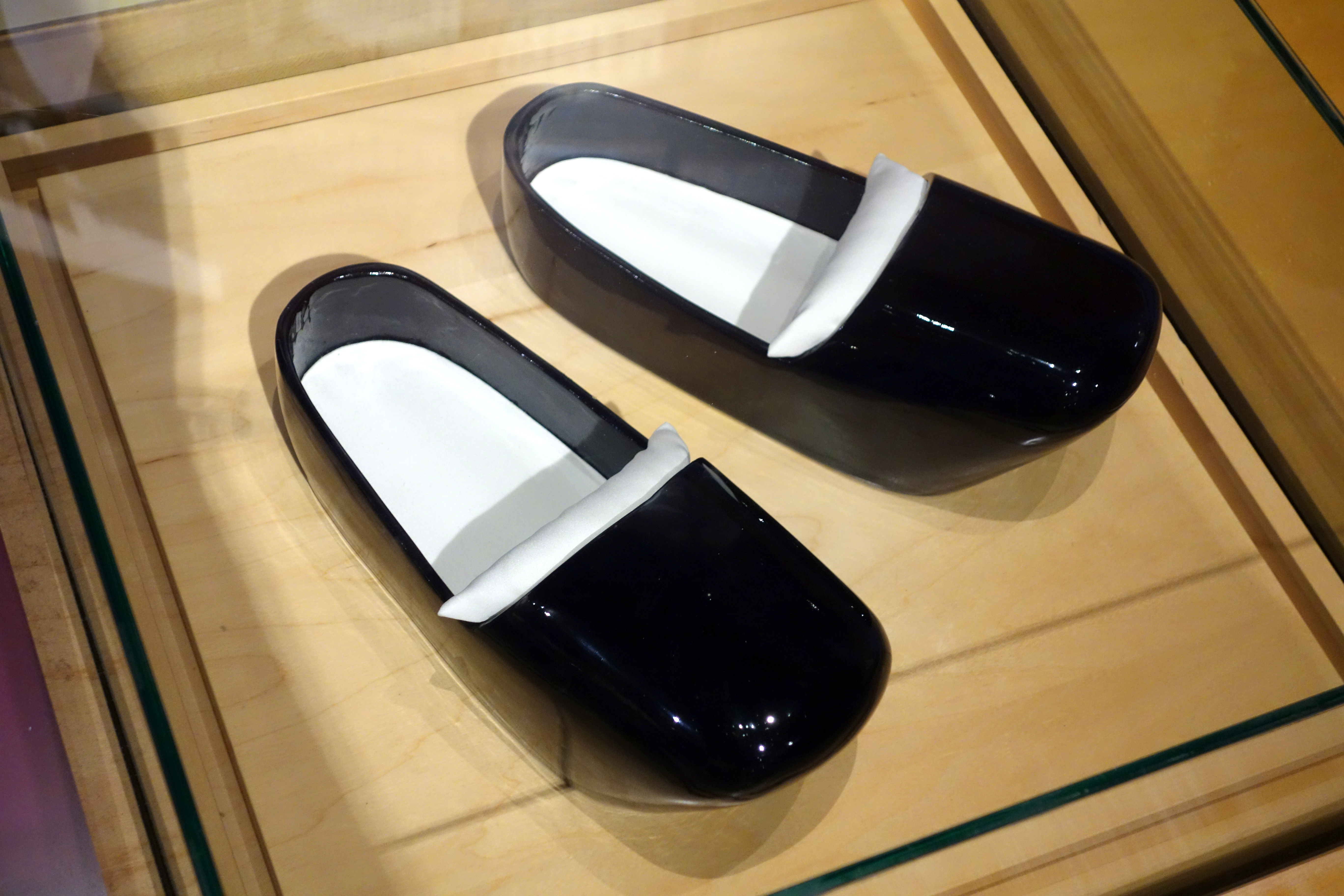 Exhibit in the Bata Shoe Museum, Toronto, Ontario, Canada. This item is old enough so that its design is in the public domain. The museum permitted photography without restriction.